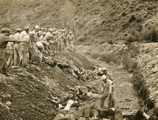 This file photograph taken by the U.S. Army in July 1950, and provided by the U.S. National Archives in College Park, Md., apparently shows the aftermath of a mass execution. It is one of a series of declassified images depicting the execution of South Korean political prisoners by the South Korean military and police at Daejeon, South Korea, over several days in July 1950. The investigative Truth and Reconciliation Commission (of South Korea) estimated in 2008 that at least 100,000 communists and their sympathizers were hastily shot throughout South Korea and dumped into makeshift trenches, abandoned mines or the sea in 1950, shortly after communist North Korea invaded the south. (Photo/National Archives, U.S. Army, File)